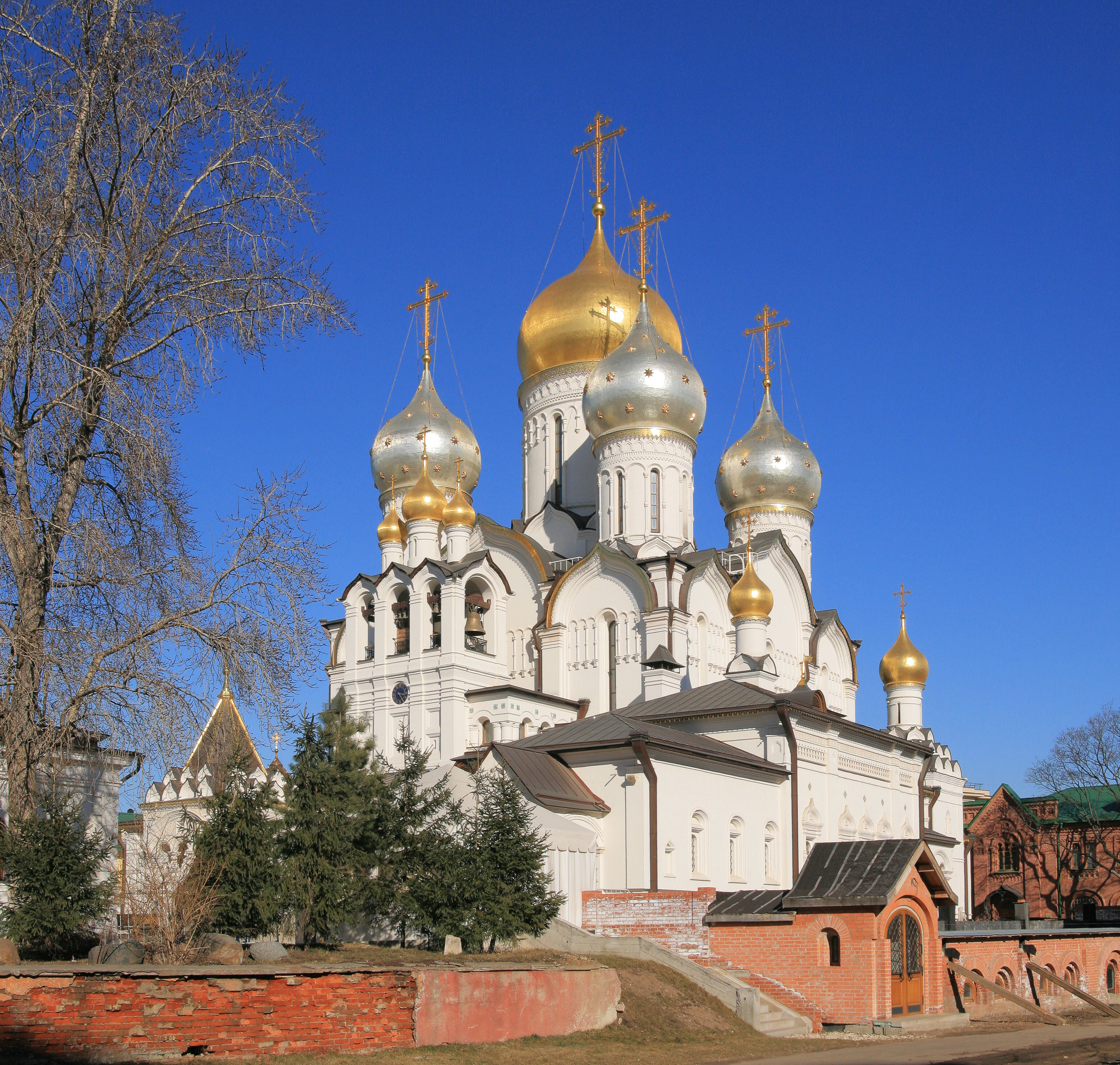 Cathedral in Zachatyevsky Convent, Moscow